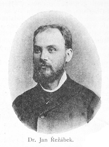 Portrait of Jan Řežábek (1852-1925), Czech high school teacher, director of Czech-Slavonic Business Academy in Prague and geographer.